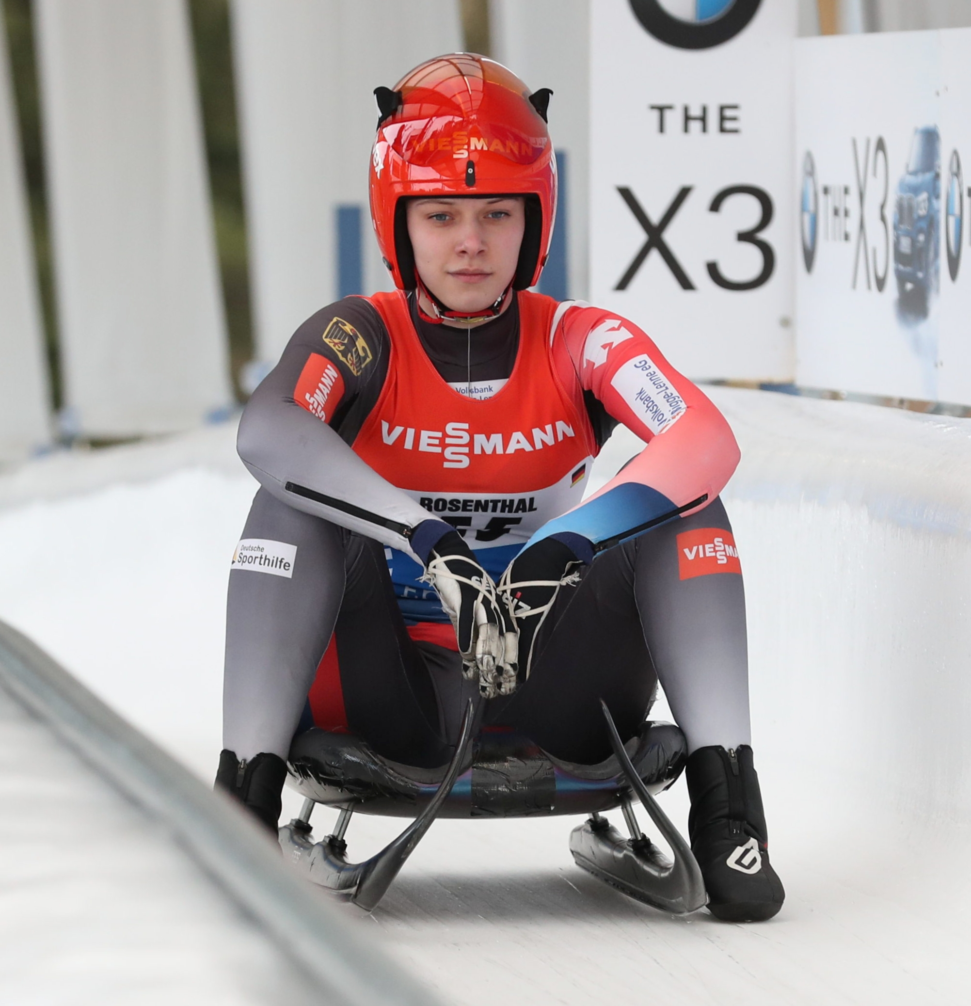 Training of the seeding groups at the 2019/20 Oberhof Luge World Cup